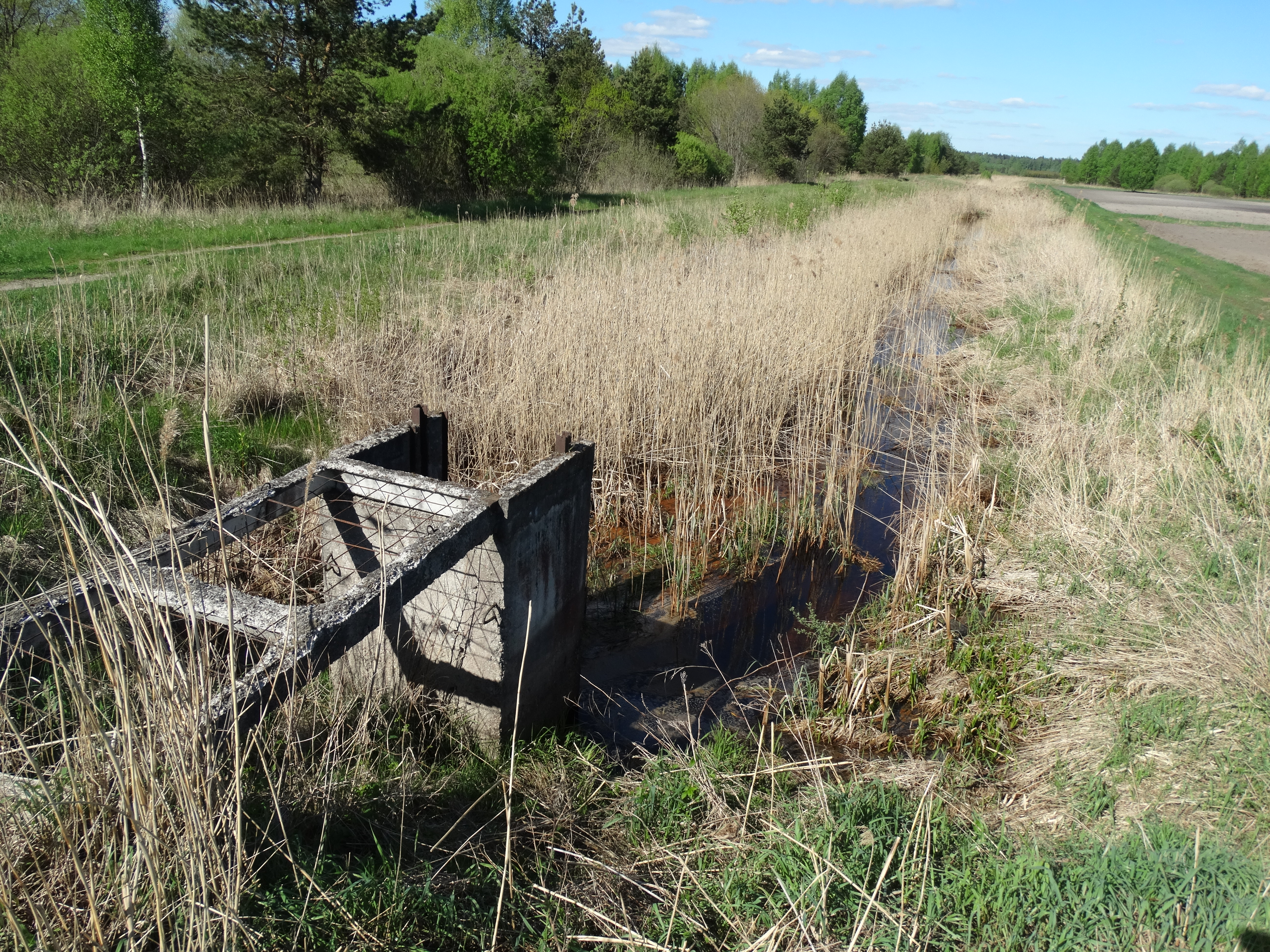 Raudonplynis, by peatland, Kazlų Rūda municipality, Lithuania